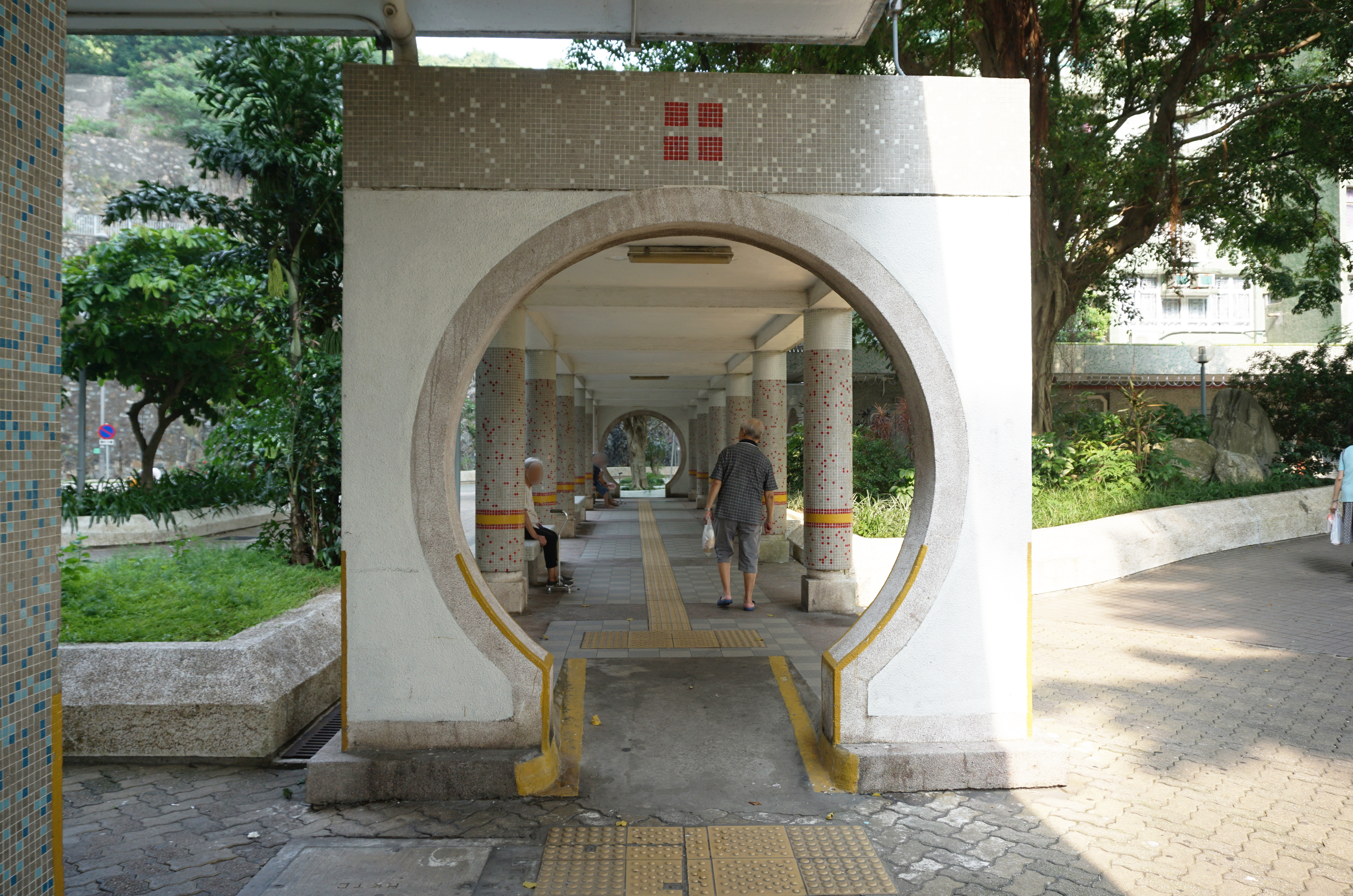 Wah Kwai Estate in Pok Fu Lam, Hong Kong.